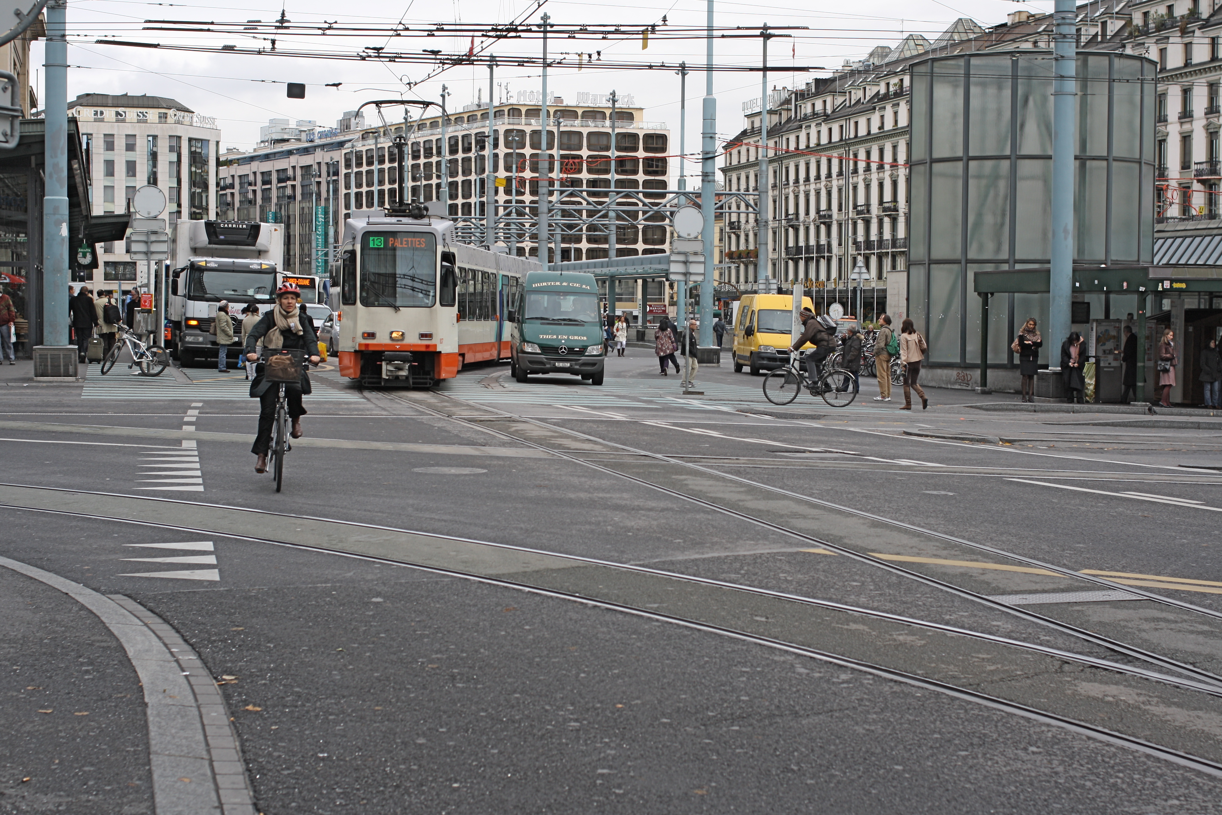 Tramway Genève Cornavin